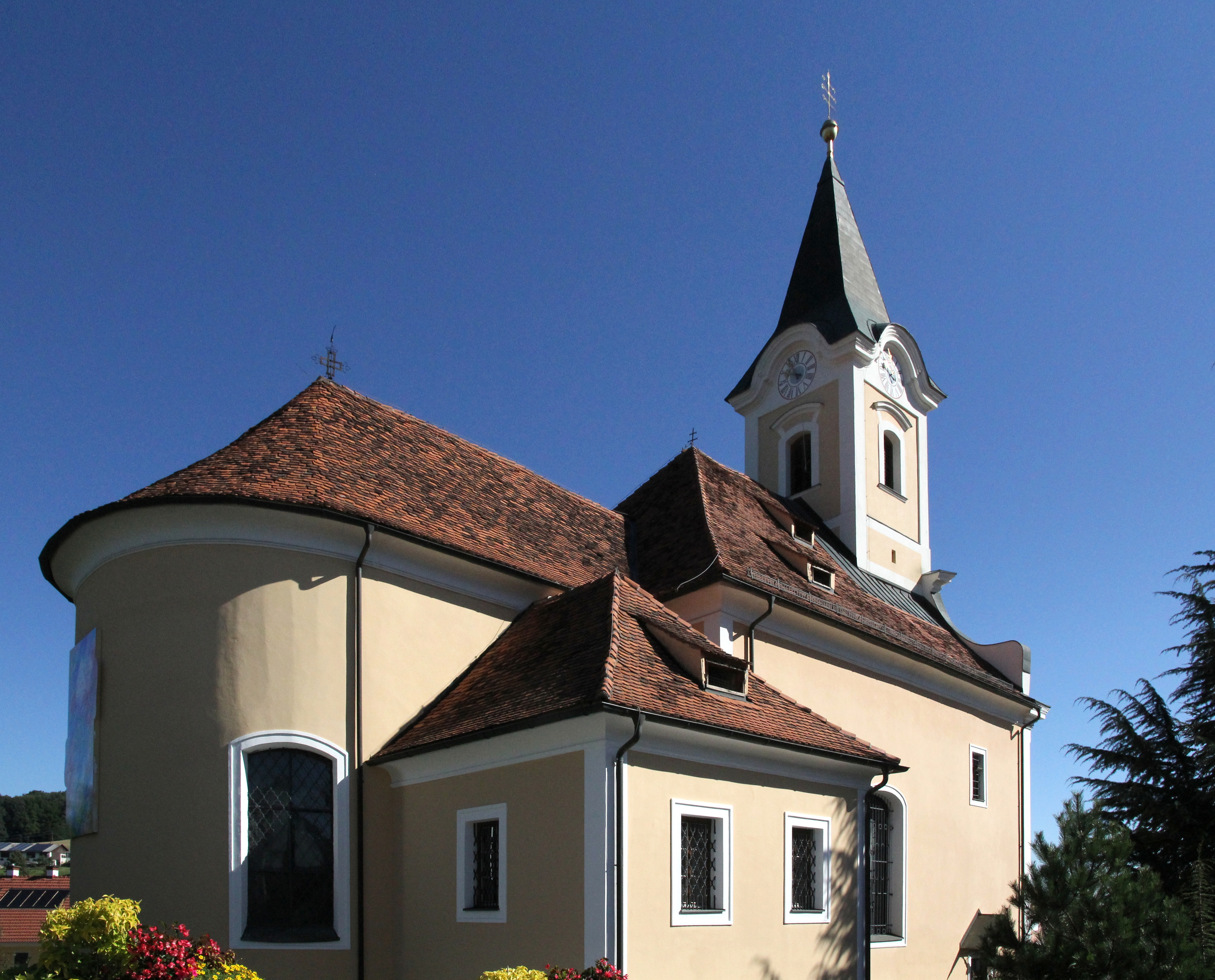 Nestelbach bei Graz, Pfarrkirche